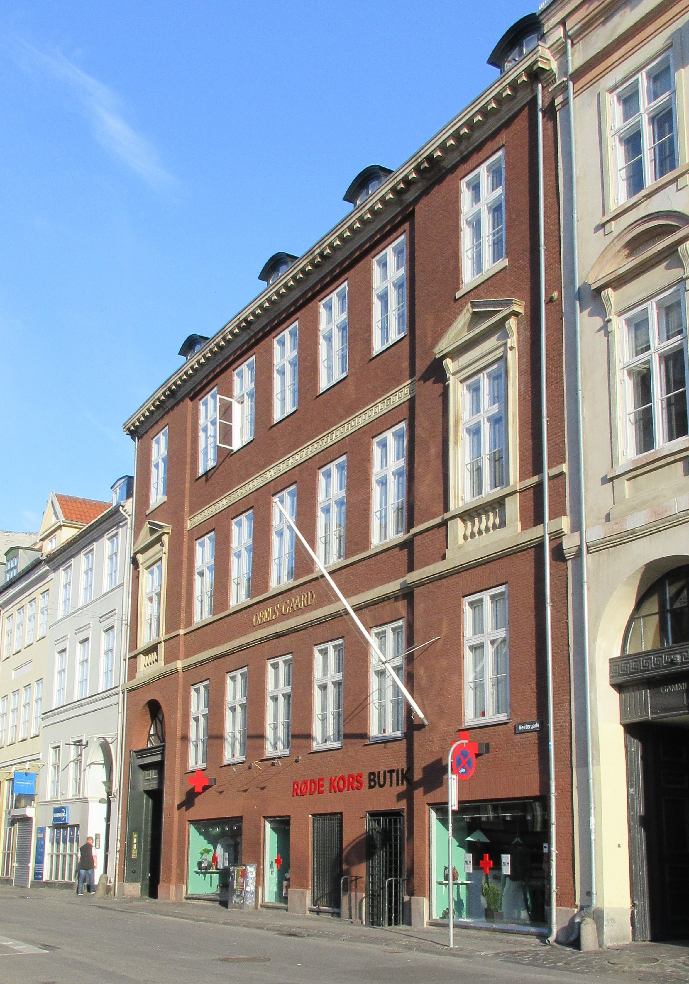 Obels Gård at Vestergade 2 in Copenhagen, Denmark